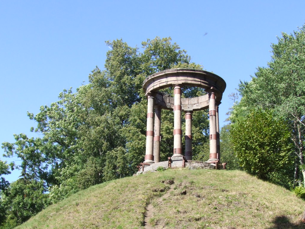 The tempel hill in Alūksne, Lettland